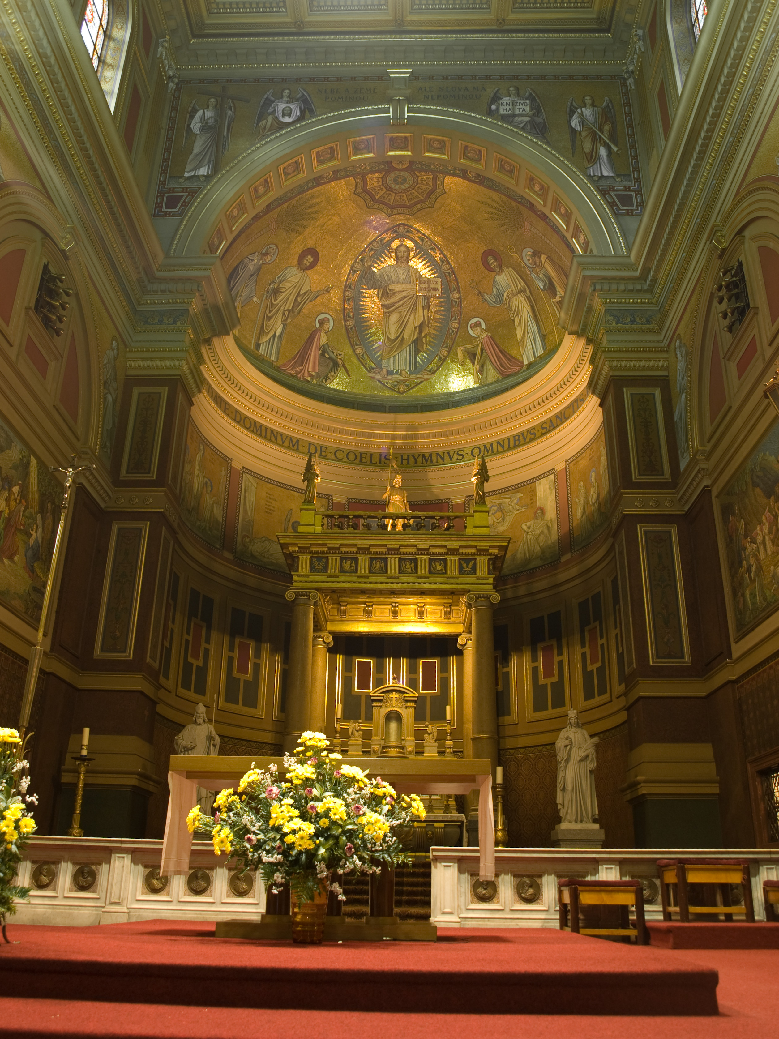 Church of Saint Wenceslaus, Smíchov